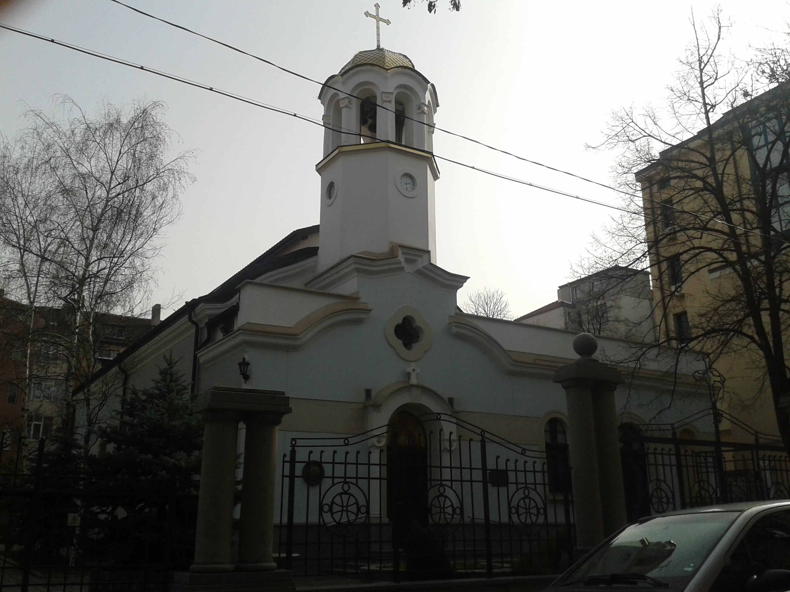 Dormition of Mary Greek Catholic Church in Sofia